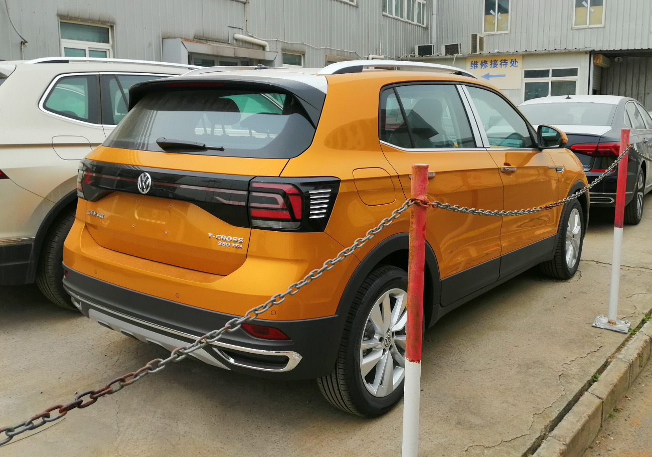 Volkswagen T-Cross CN photographed in Beijing, China.